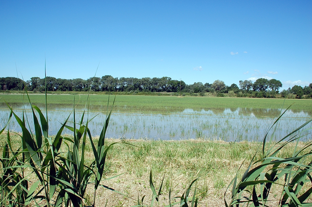 Rice field, Aigues-Mortes, Camargue, France